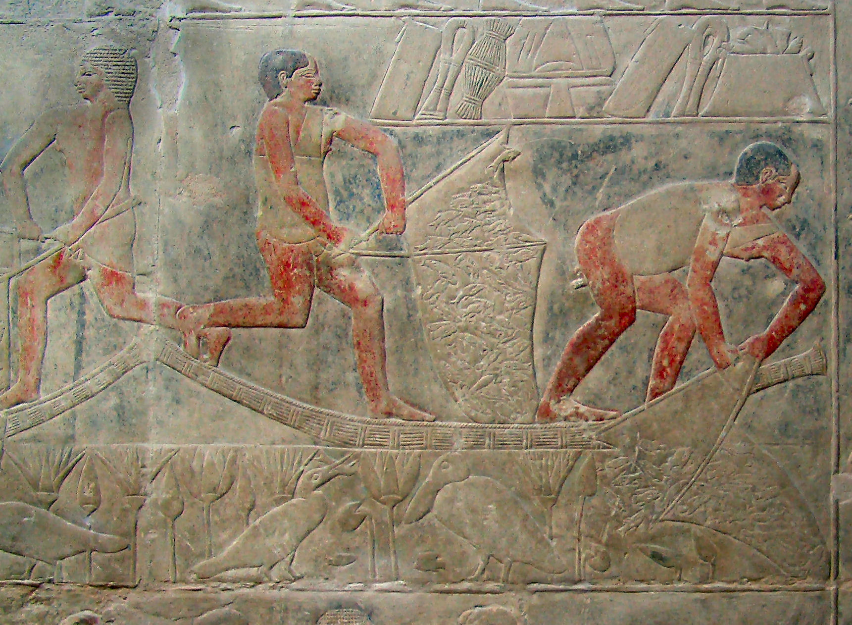 A delicate, finely carved and painted relief of fishermen collecting their day’s catch from the restored tomb of the 6th dynasty Vizier Mereruka at Saqqara, Egypt.